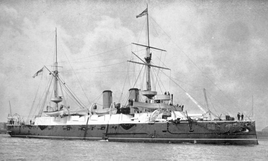 British cruiser HMS Galatea of 1887.